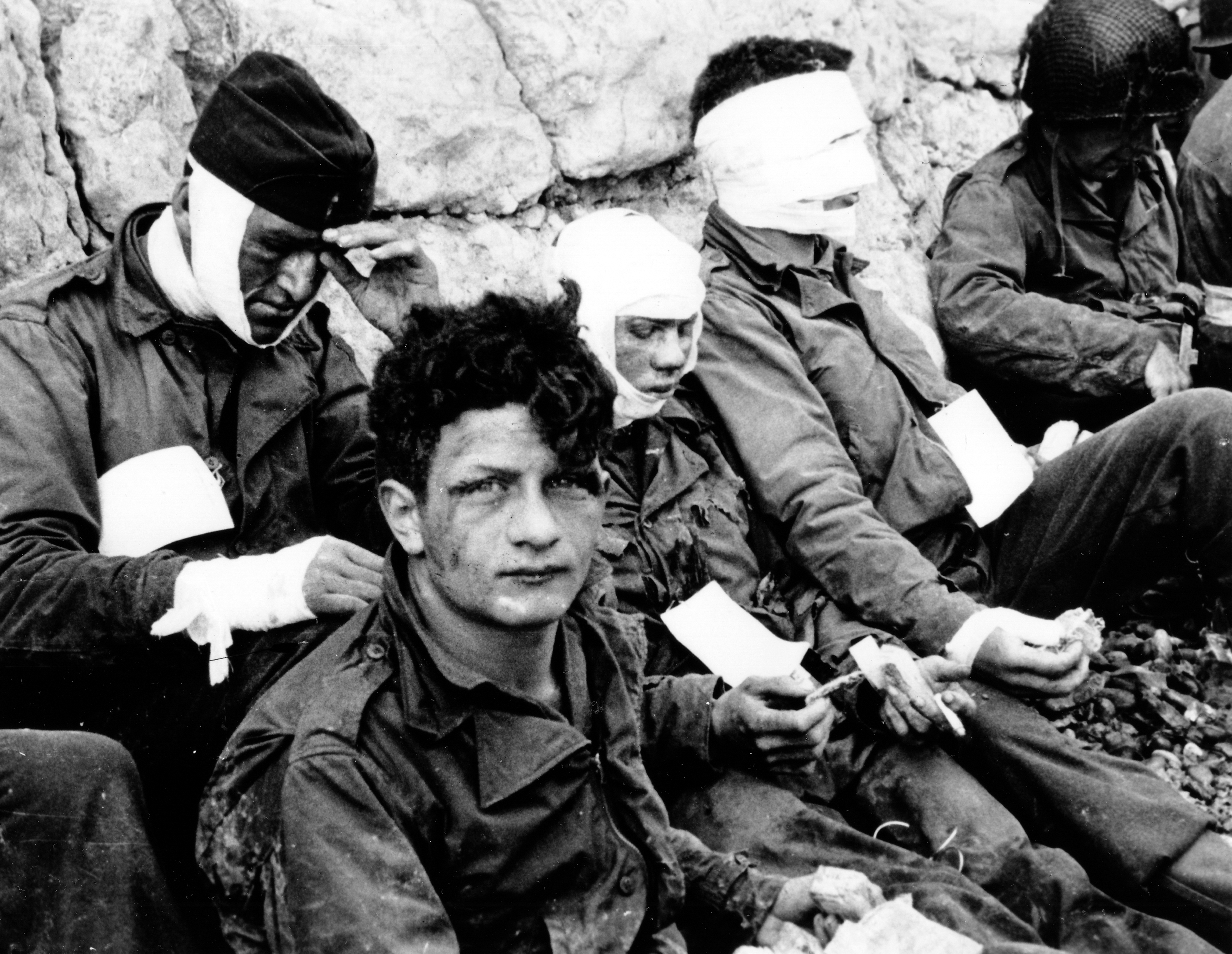 American assault troops of the 3d Battalion, 16th Infantry Regiment, 1st U.S. Infantry Division, who stormed Omaha Beach. Colleville-sur-Mer, Normandy, France, 6 June 1944. Original description Description from "Division Matrix 1st Infantry Division Images" / U.S. ARMY CENTER OF MILITARY HISTORY: SC 189910-S American assault troops of the 3d Battalion, 16th Infantry Regiment, 1st U.S. Infantry Division, who stormed Omaha Beach, and although wounded, gained the comparative safety offered by the chalk cliff at their backs. Food and cigarettes were available to lend comfort to the men at Collville-Sur-Mer, Normandy, France. 6/6/44. Description from ARC catalog (ARC Identifier: 531187, Local Identifier: 111-SC-189910, NAIL Control Number: NWDNS-111-SC-189910): American assault troops of the 16th Infantry Regiment, injured while storming Omaha Beach, wait by the Chalk Cliffs for evacuation to a field hospital for further medical treatment. Colleville-sur-Mer, Normandy, France, 06/06/1944. Description from "Normandy Invasion, June 1944", Overview and Special Image Selection, history.navy.mil website : wounded men of the 3rd Battalion, 16th Infantry Regiment, 1st Infantry Division, receive cigarettes and food after they had stormed "Omaha" beach on "D-Day", 6 June 1944. Description from Archives Normandie 1939-45 (ID p012901): Bataille de Normandie : été 1944 : Jeunes blessés américains.